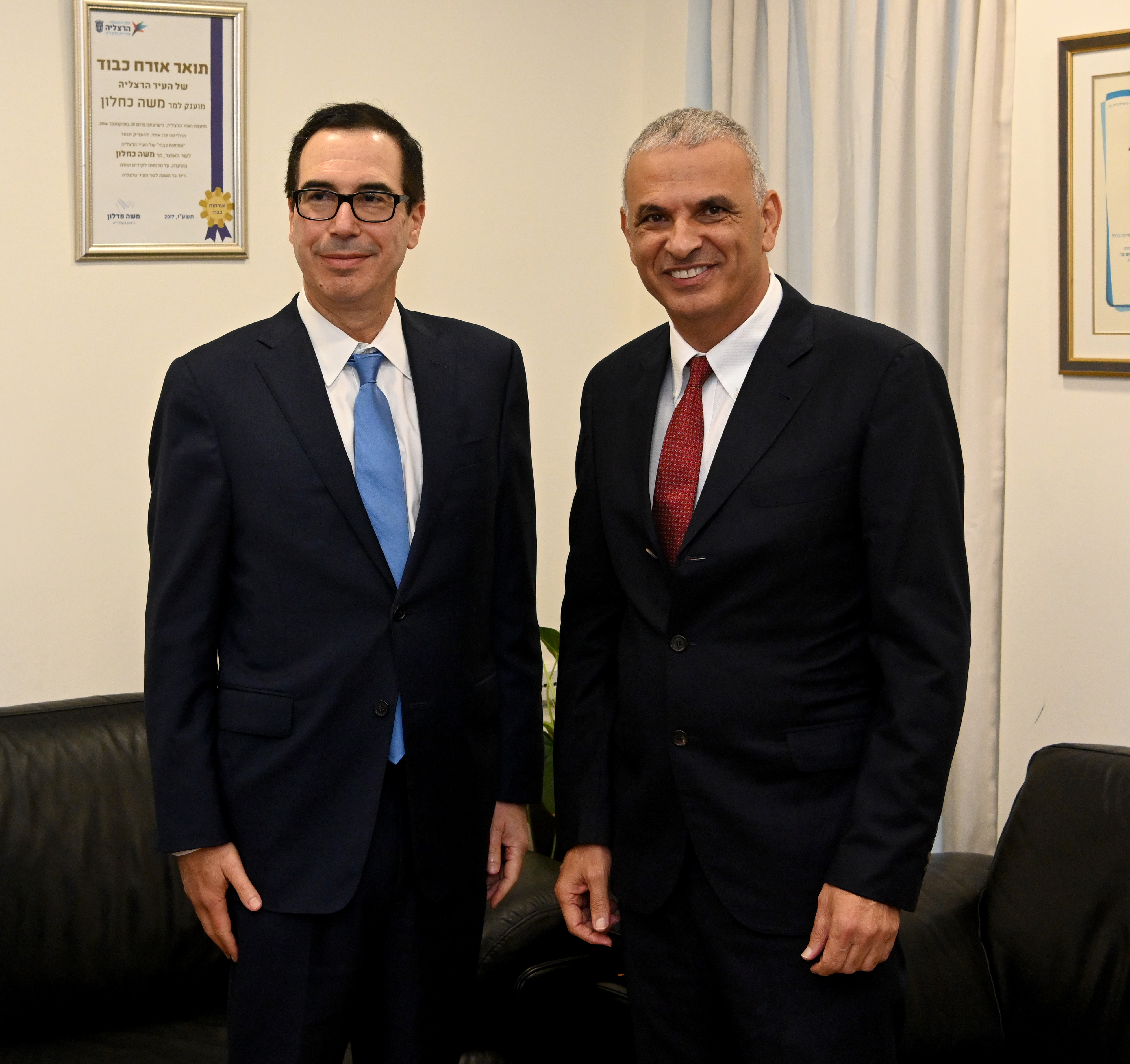 Meeting with Israeli finance Min. Moshe Kahlon at Ministry of Finance